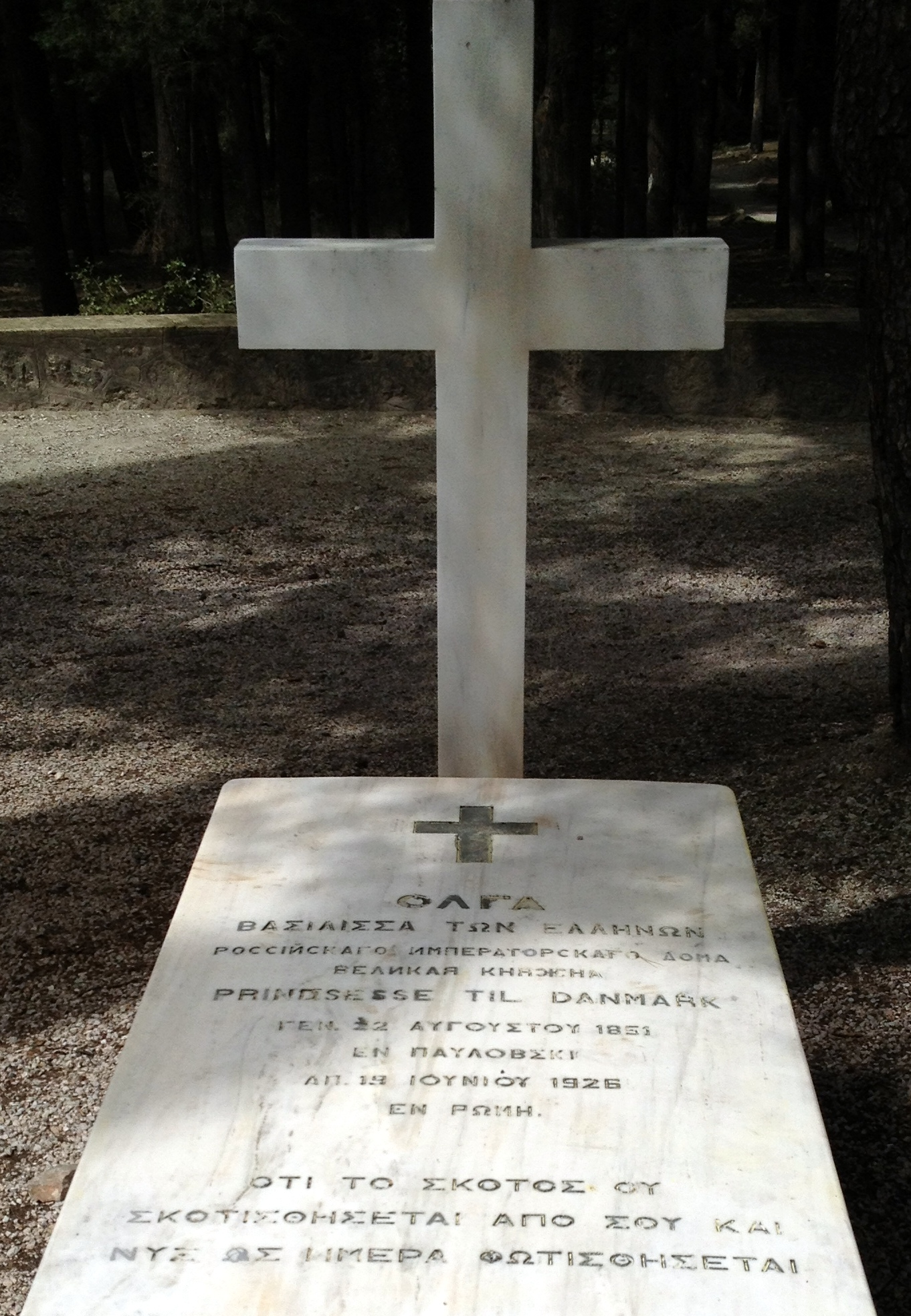 Tomb of Queen Olga of Greece